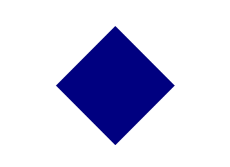 III Corps, Army of the Potomac, 3rd Division Badge